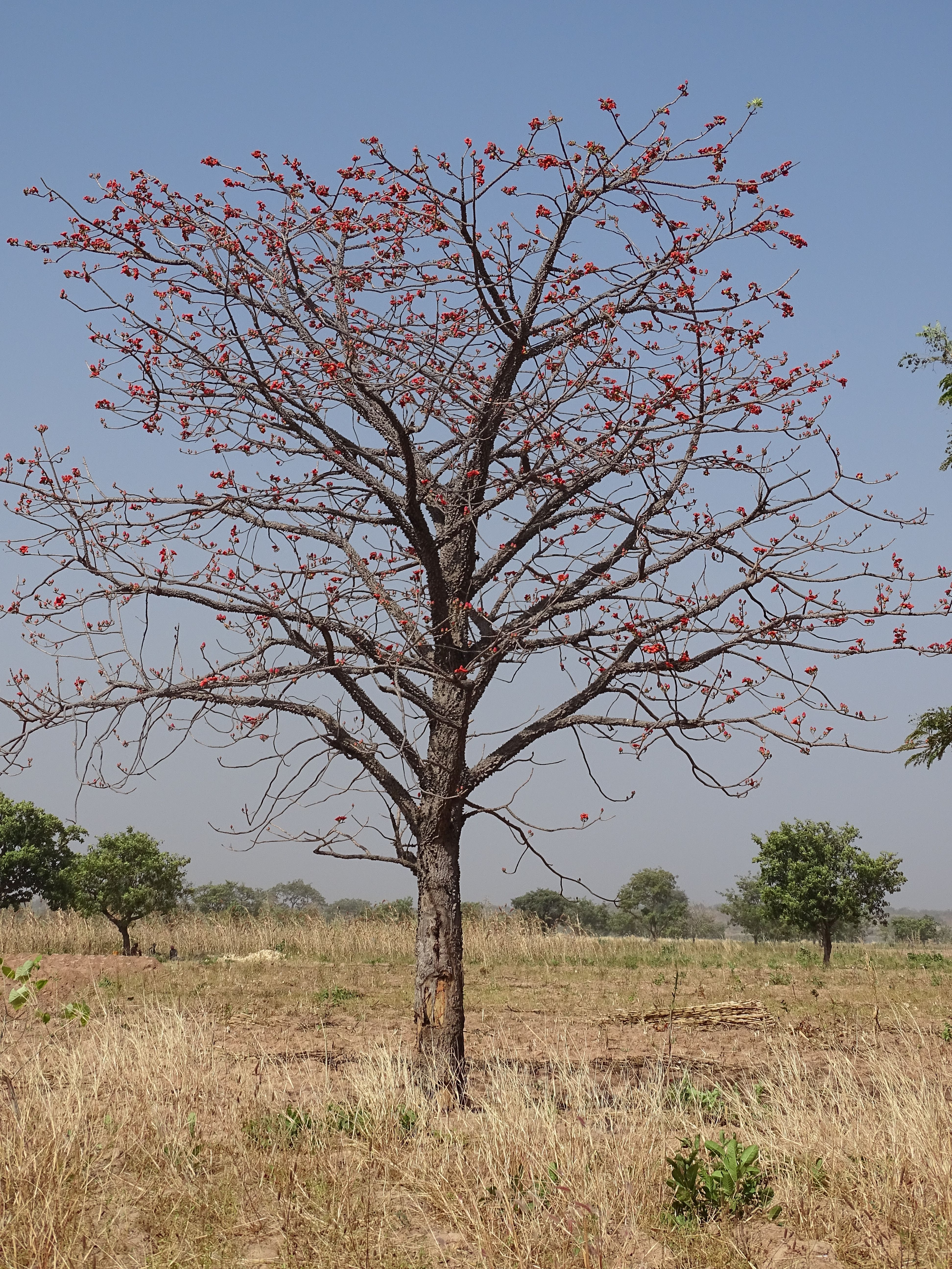 C'est un petit arbre atteignant 5 à 15 m de hauteur. Il fleurit en saison sèche, avant l'apparition des feuilles. Le calice de la fleur est utilisé dans la cuisine pas la population locale autour du parc pendjari dans la confection de sauces très gluante; épaisses avec un goût particulier et une texture. Mais la récolte excessive des fleurs peut être problématique pour le renouvellement de l'espèce, en empêchant la formation de graines. Donc il va falloir une exploitation rationnelle de la ressource.